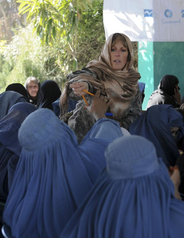 U.S. Army Lt. Col. Pam Moody, 319th ADT, and a resident of Indianapolis, Ind., hands out pencils to Afghan women at the International Women's Day gathering held in Khowst City, Khowst Province, Afghanistan, March 8. International Women's Daily is an annual day observed in many nations around the world on March 8 each year.